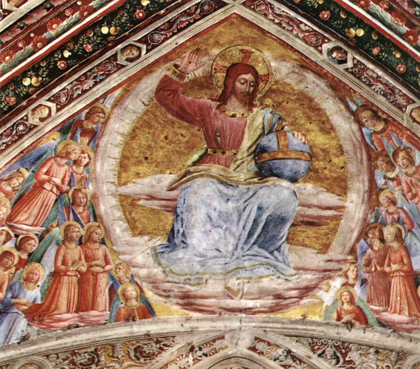 Prophets Fresco Chapel of San Brizio, Duomo, Orvieto